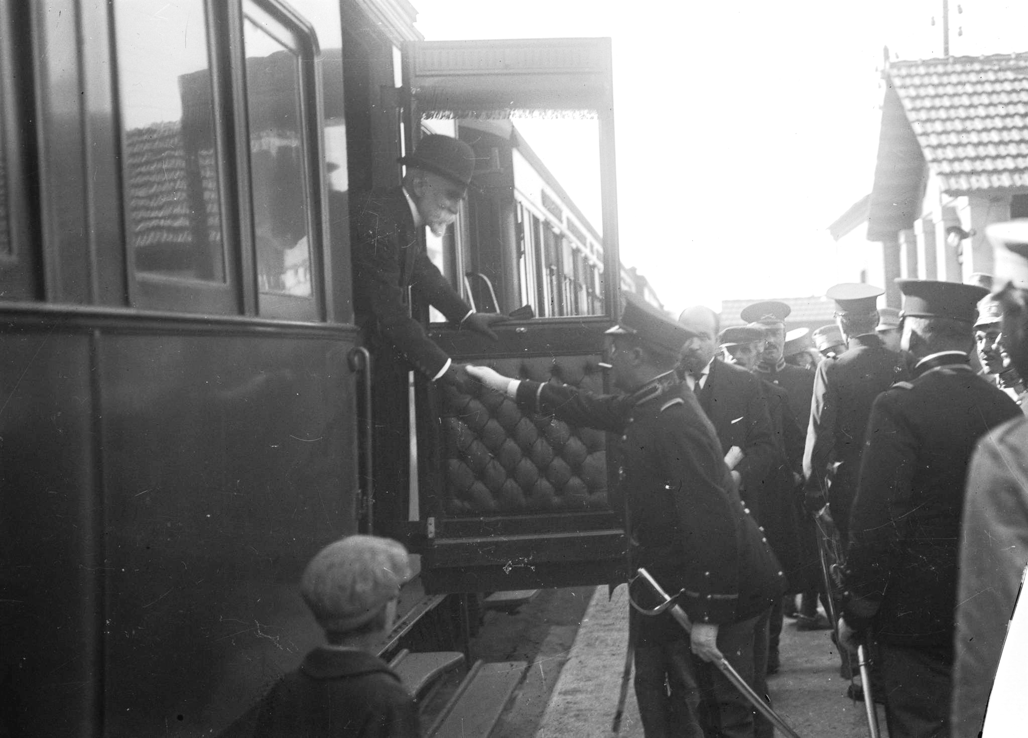 President of the Portuguese Republic Bernardino Machado boards the train that will lead him to exile in Paris, after the coup headed by Sidónio Pais, in 1917.